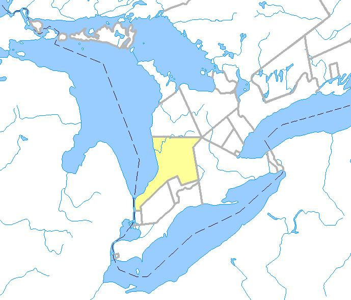 Map of Lake Huron. Category:Michigan maps